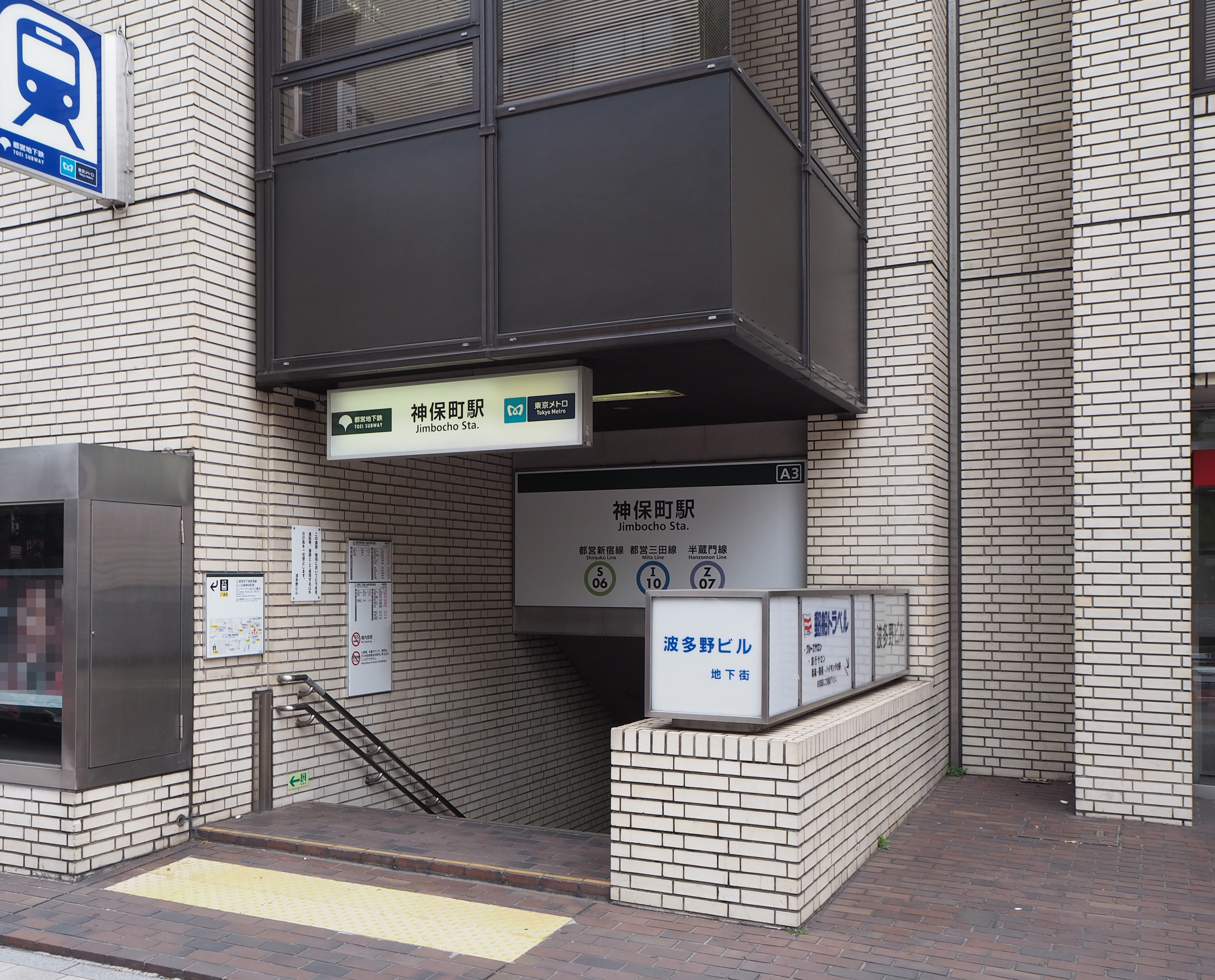 Entrance A3 to Jimbocho Station in Tokyo, Japan